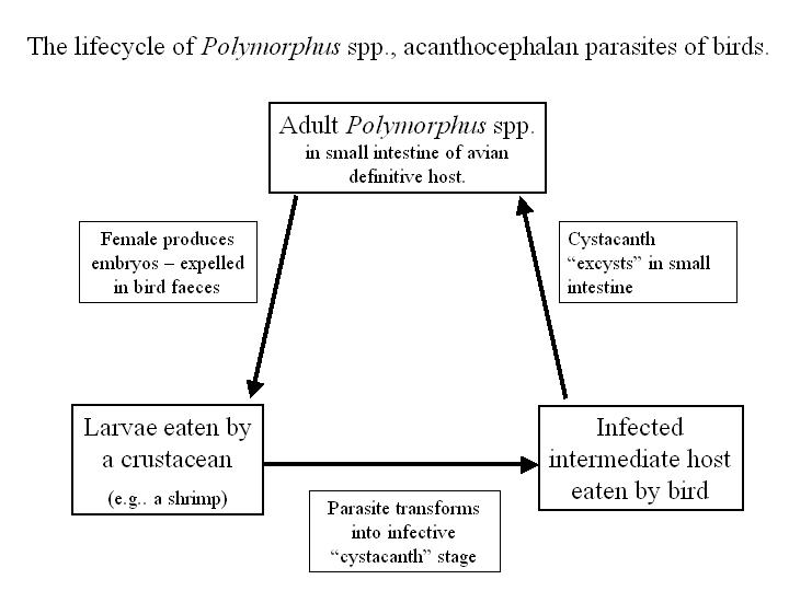 diagram of acanthocephalan life cycles